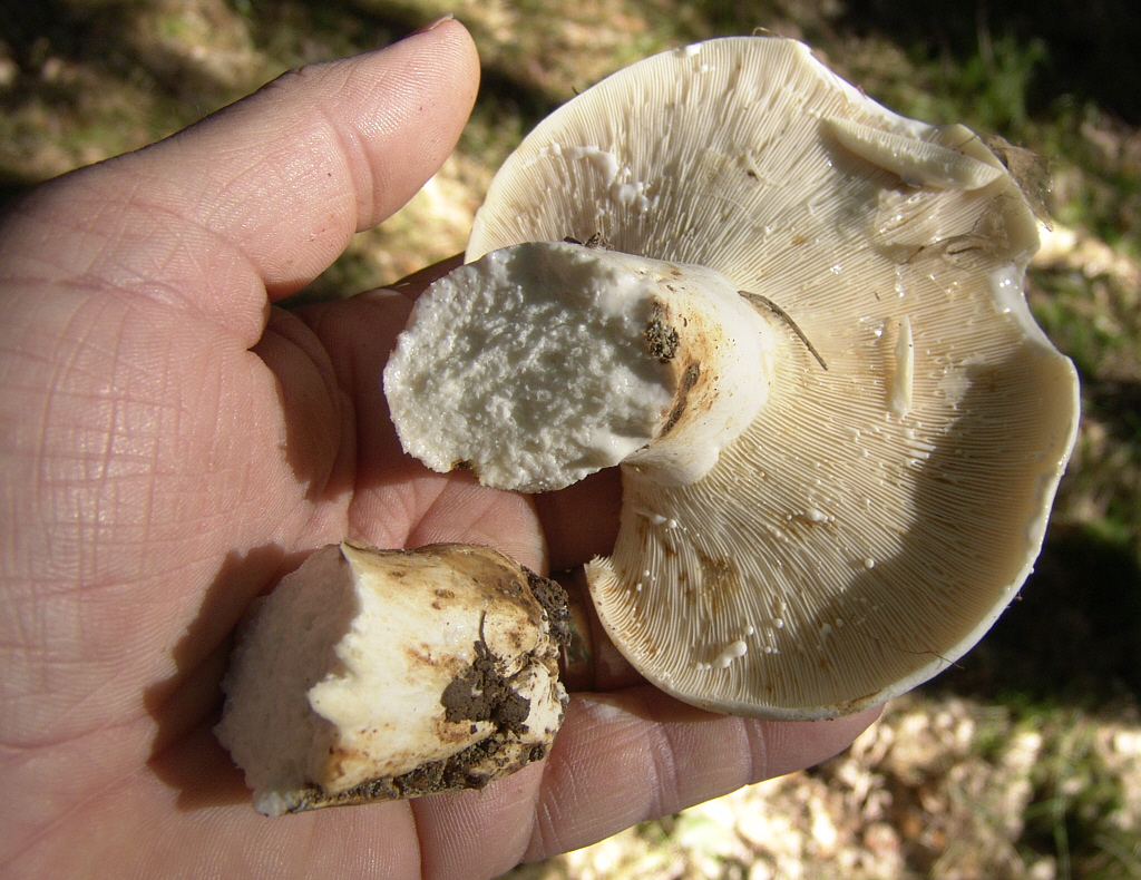 An important characteristic to distinguish Russula and Lactarius from other types of mushrooms is the consistency of the stipe. In Russula and Lactarius, this breaks like the flesh of an apple, whilst in most other species it only breaks into fibres. The picture shows a Lactarius vellereus of which the stipe was broken by hand. (2005)